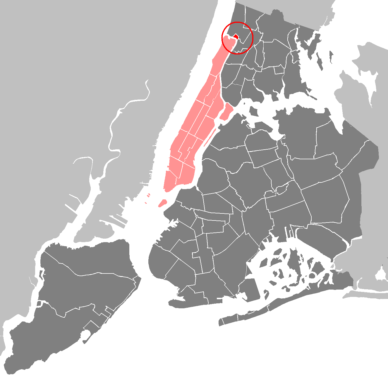 Maps of New York City: New York City - Manhattan - Marble Hill.PNG